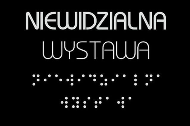 Logo of Invisible Exhibition in Warsaw, Poland